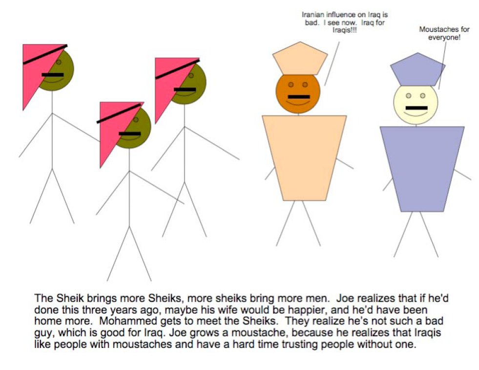 Selected slide from a powerpoint presentation created by Captain Travis Patriquin. According to Colonel Sean MacFarland, First Brigade, 1st Armored Division, these slides were created to explain the 1st Brigade's “best practices” developed in Ramadi.